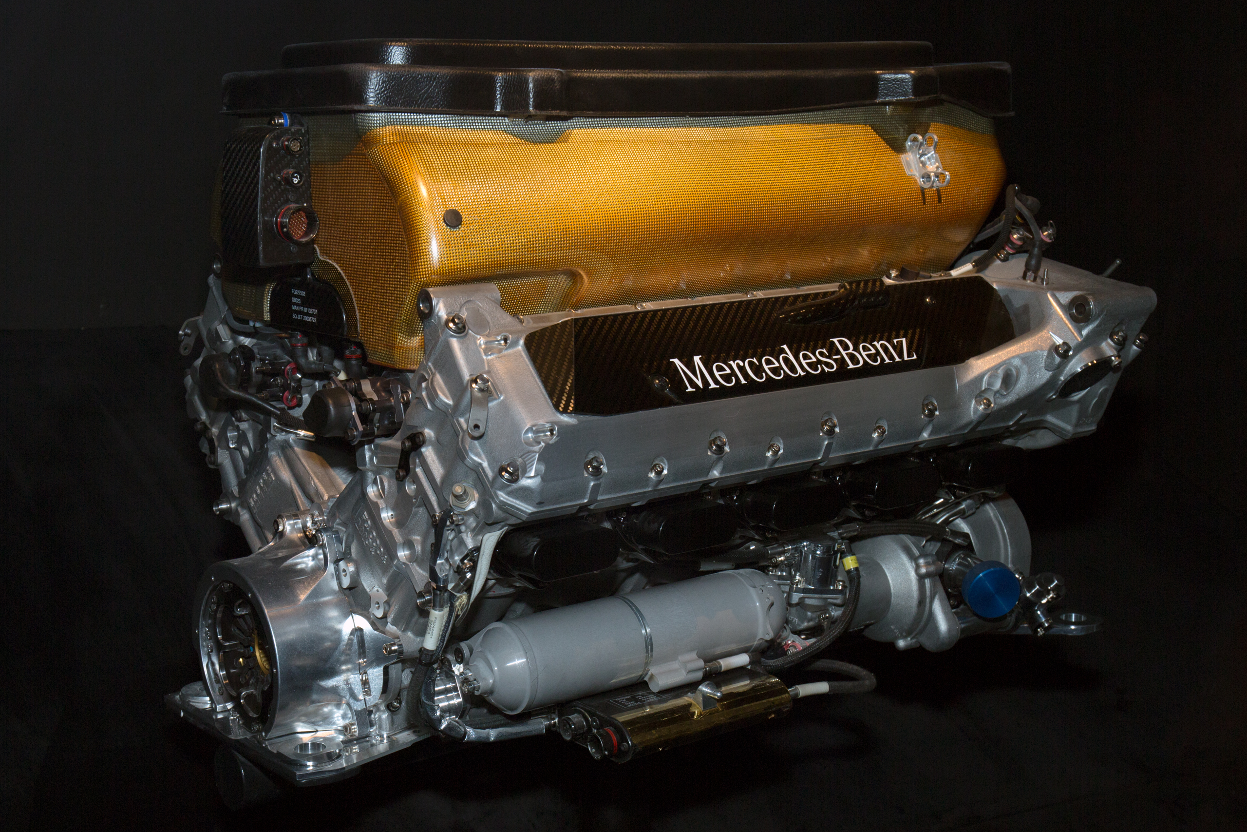 2002 Mercedes-Benz FO 110 M Formula One engine